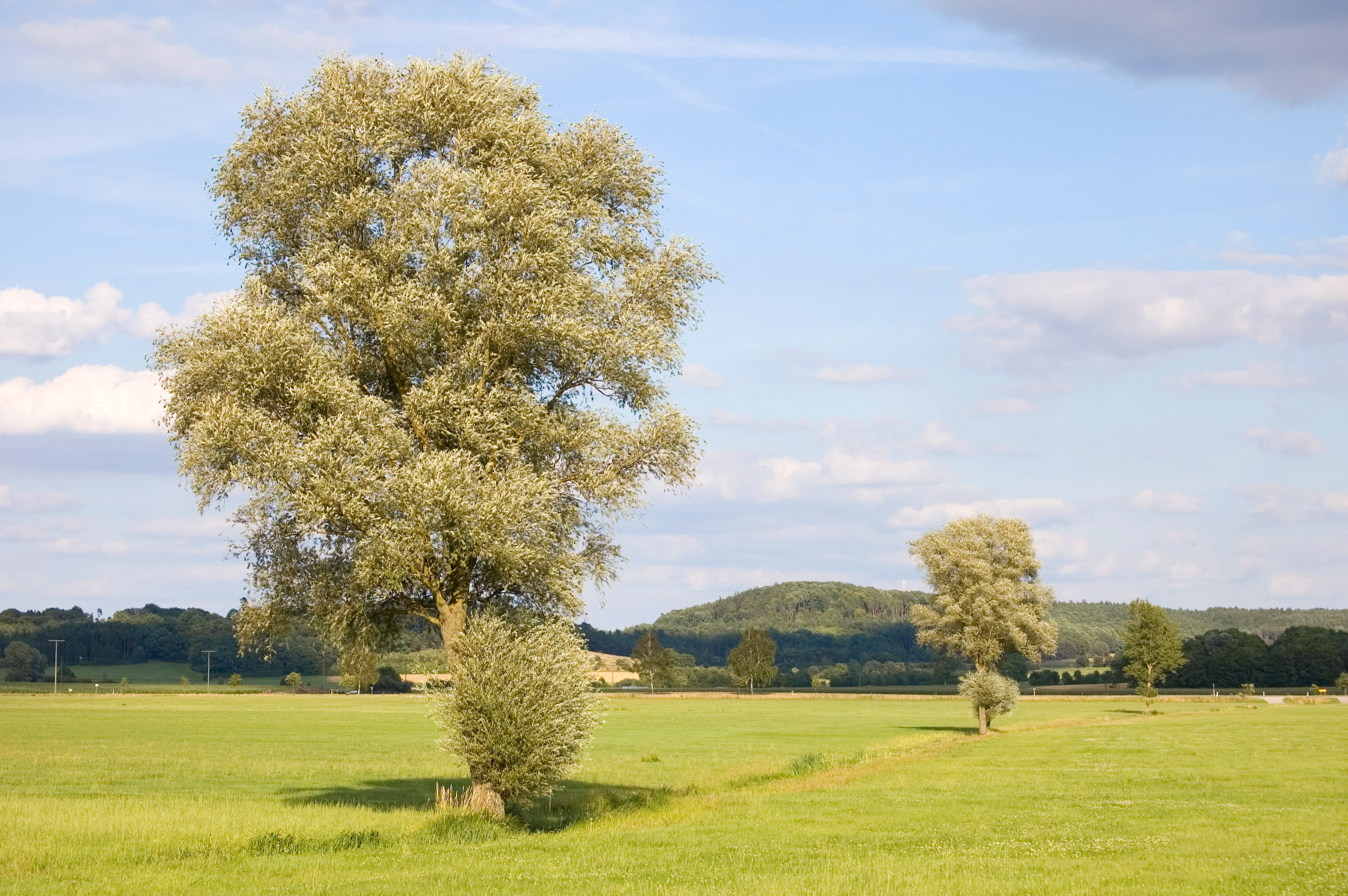 natural scenery near Colmberg, Bavaria, Germany Camera: Nikon D50 Lens: AF-S DX Zoom-Nikkor 55-200 mm 1:4-5,6G ED